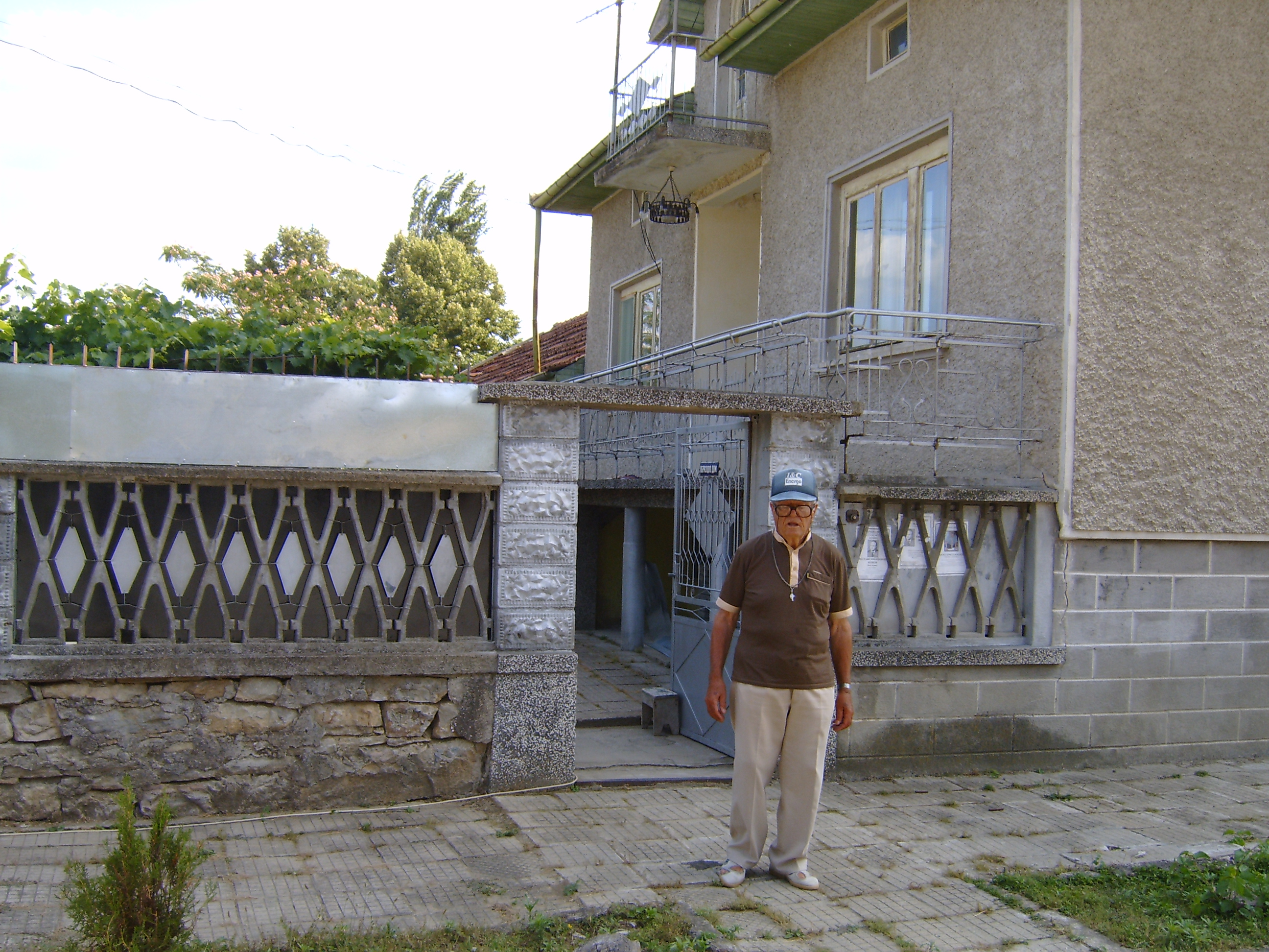 kossis